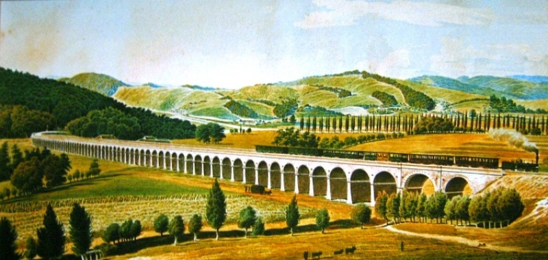 Watercolor painting of the former Pesnica railway viaduct (today an embankment) by Ferdinand Jungblut (1810 - ????). The viaduct was located near Pesnica north of Maribor, Slovenia